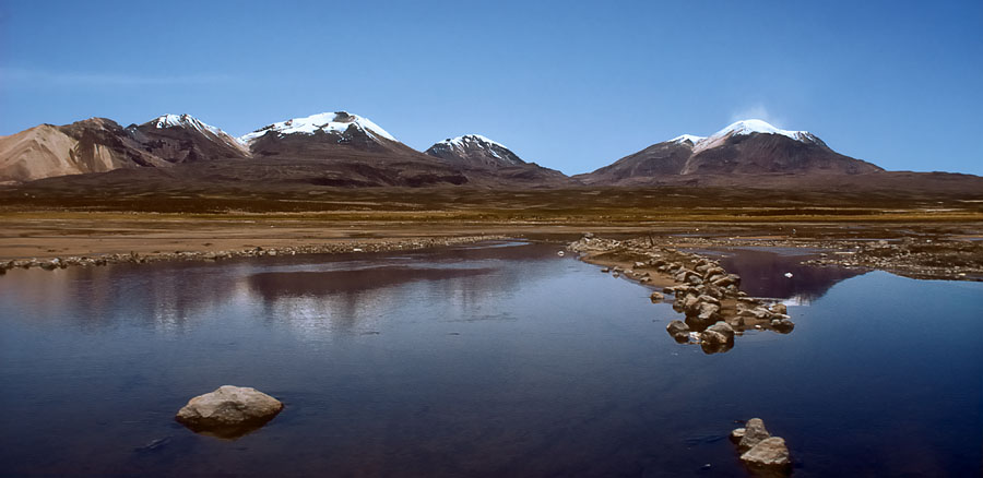 Seen form lake Chungara: the Nevados de Quimsachata. FLTR: Cerro Humarata, Acotango Volcano, Cerro Capurata. Guallatiri Volcano.